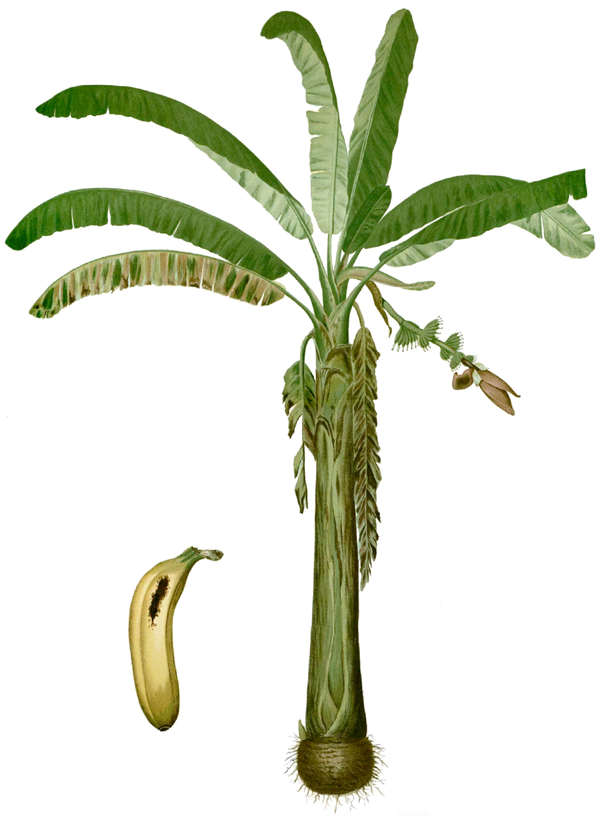 Musa ×paradisiaca Plate from book